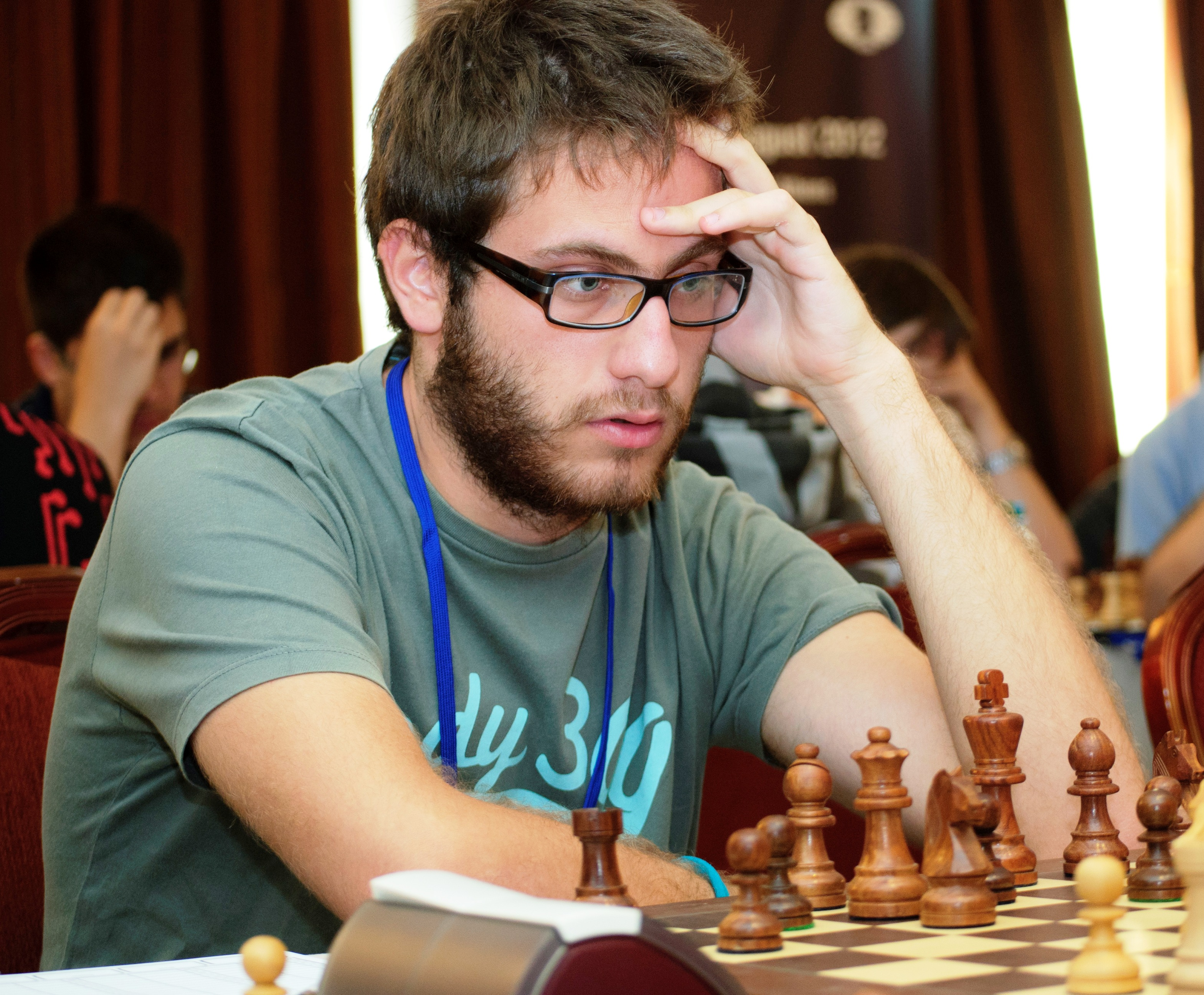 IM Antonios Pavlidis, WChJ Athens 2012